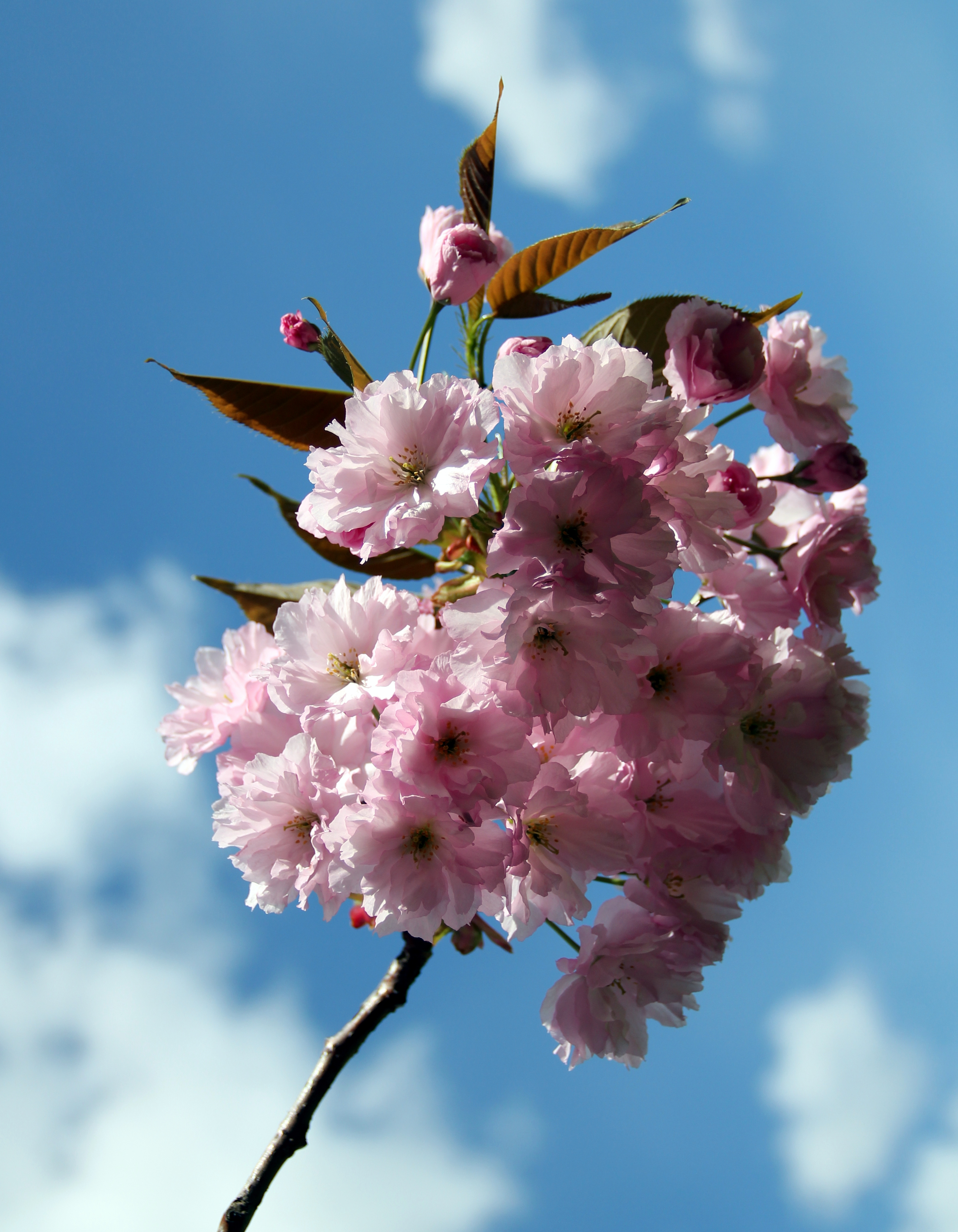 Prunus serrulata